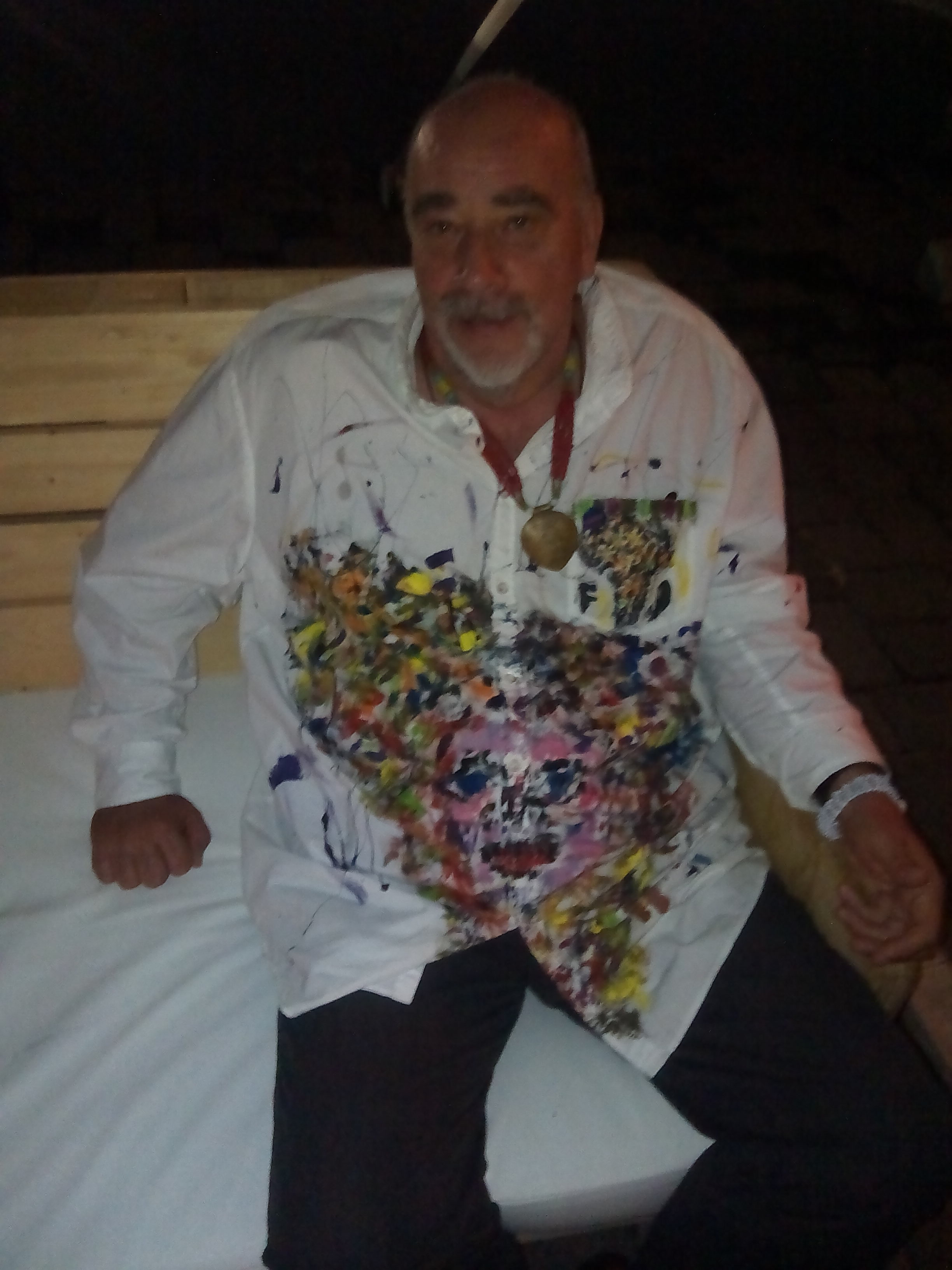 These are my pictures, I took of Robert Trunz at an Goethe institute event in Johannesburg.